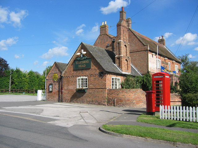 The Unicorn's Head, Langar. A large pub in a village of mainly small cottages and a few large houses. It faces the village green.